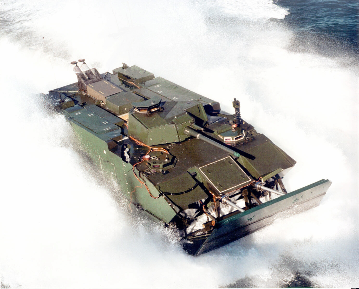 The United States Marine Corps' Expeditionary Fighting Vehicle at speed in water. Picture taken from a helicopter.